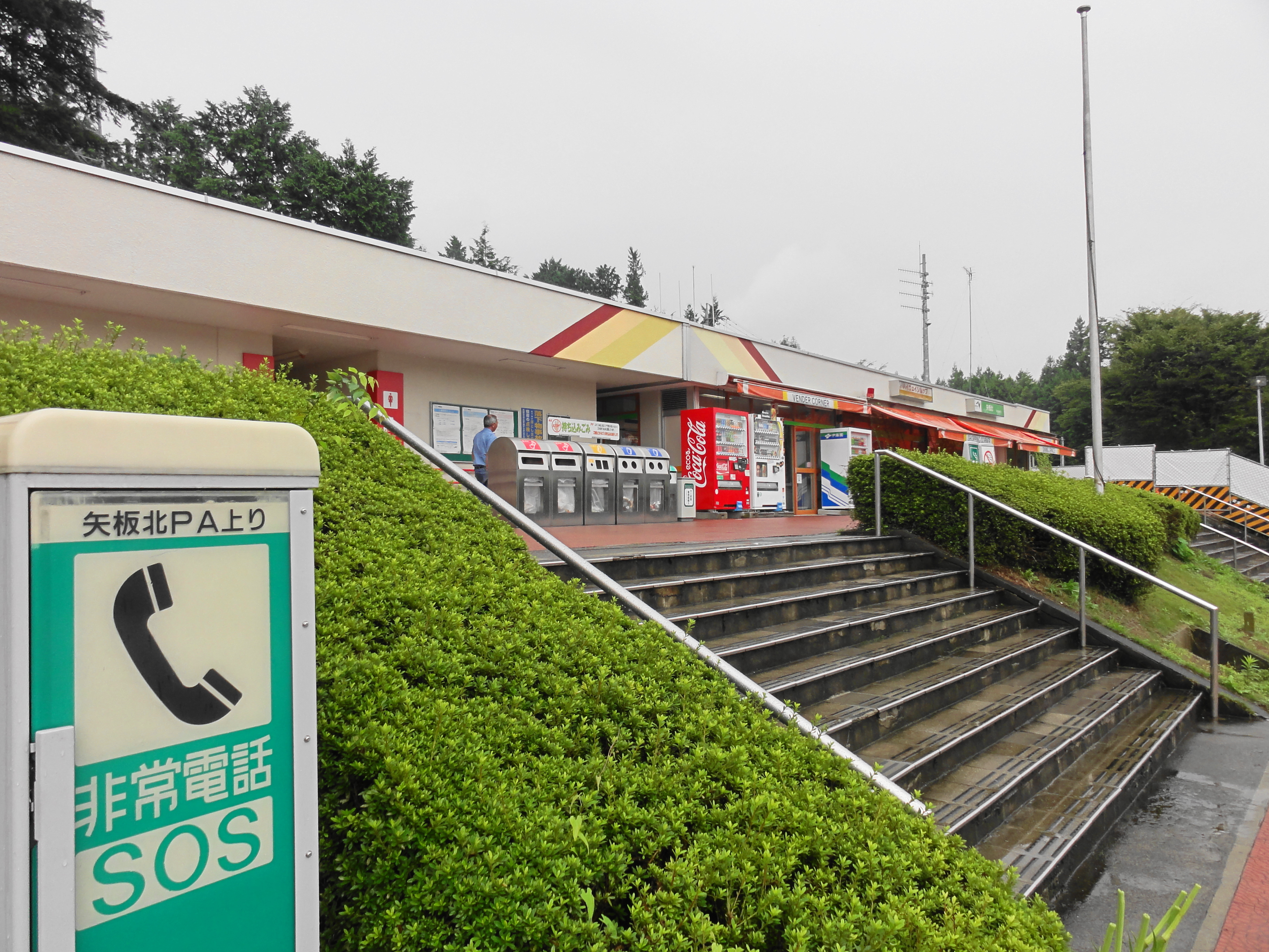 Yaita-kita Paking Area,Tochigi prefecture, Japan